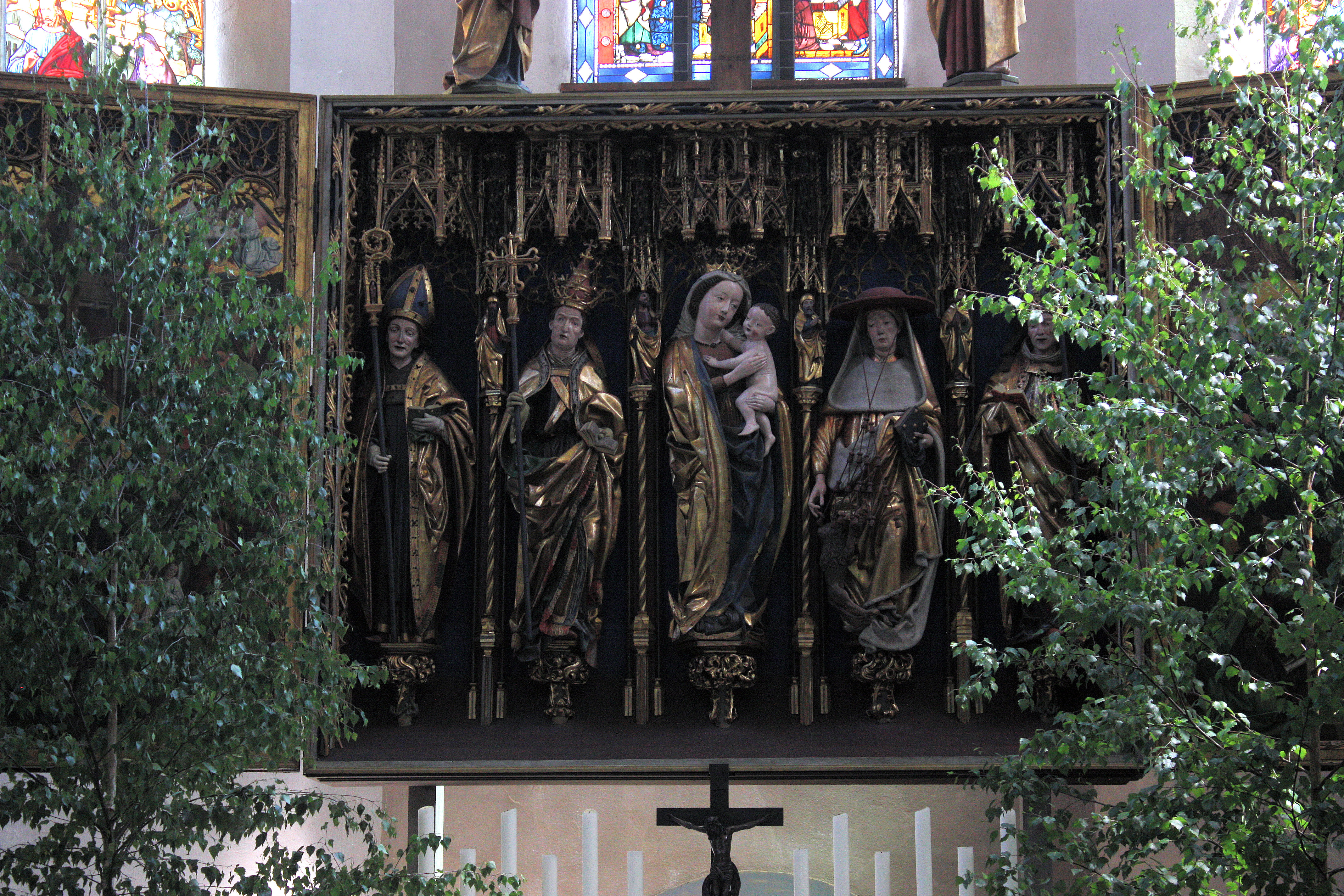 Hersbruck, St. Mary´s Church, the altarThis is a photograph of an architectural monument.